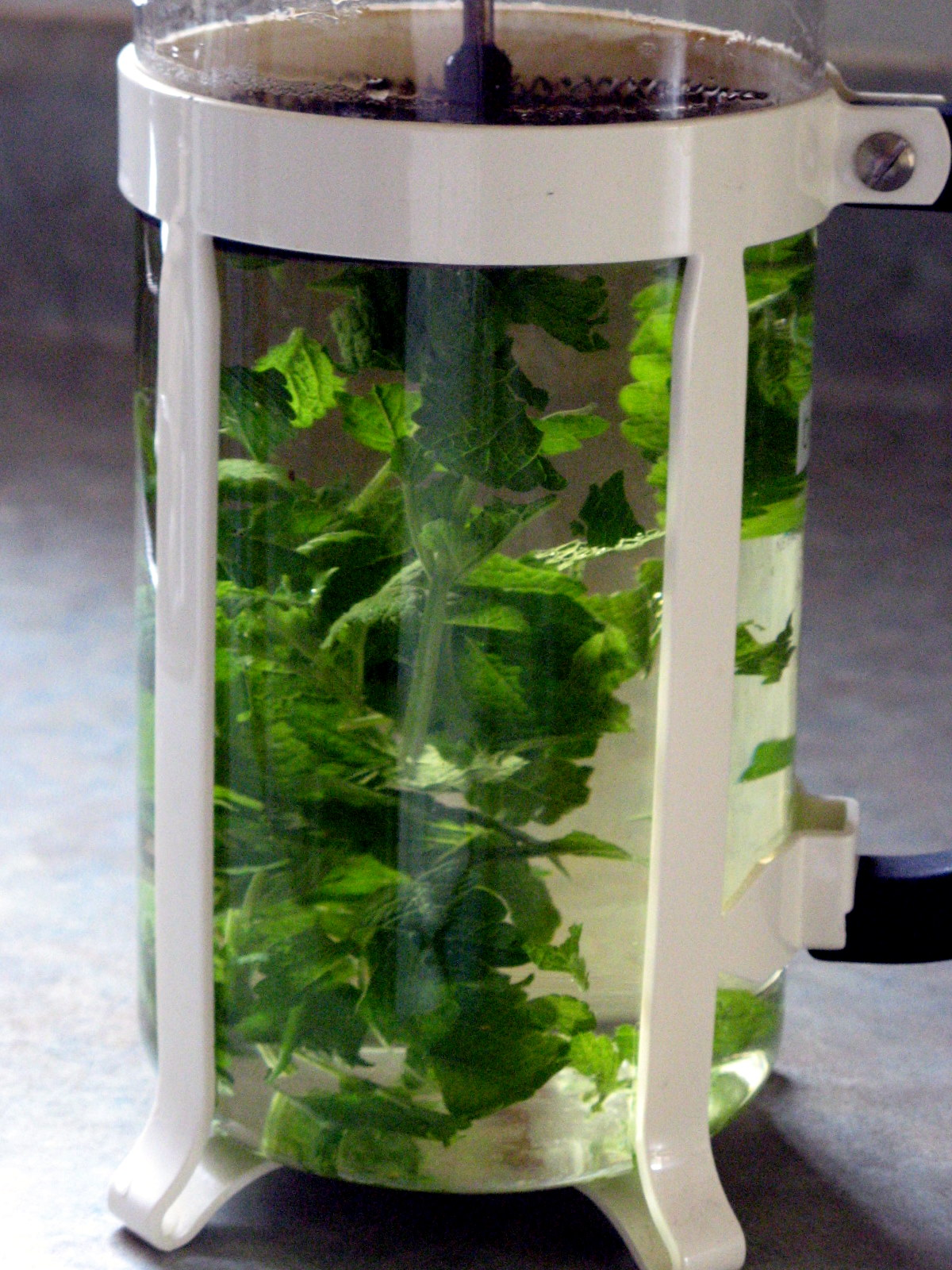 Making Lemon Balm tea for relaxing.